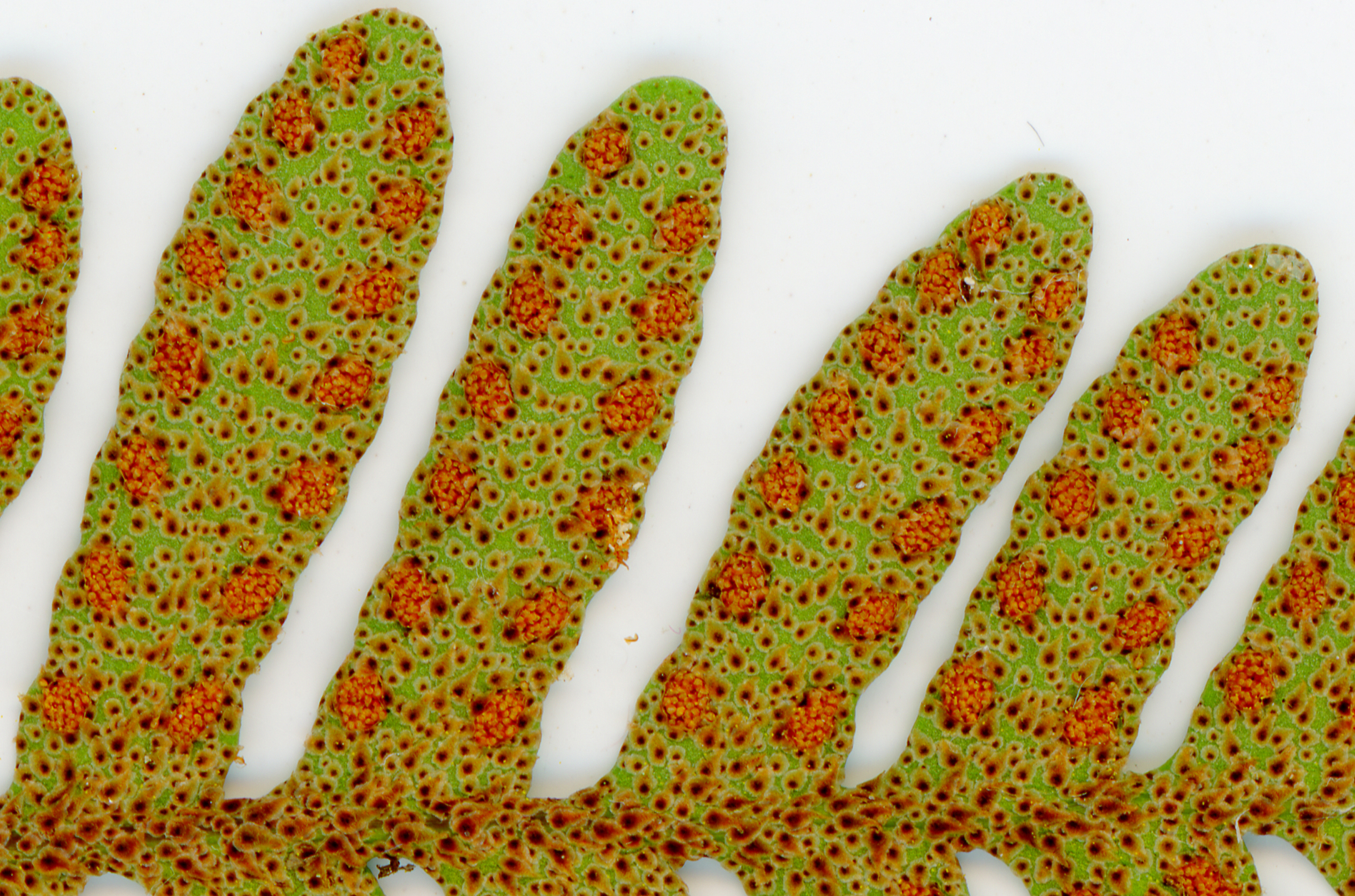 A close-up image of the "resurrection fern", Pleopeltis polypodioides, imaged with an Epson V600 scanner.